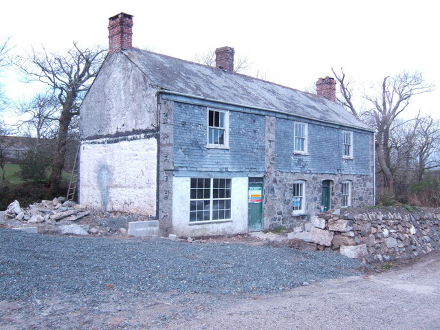 Cottage undergoing renovation In Traboe